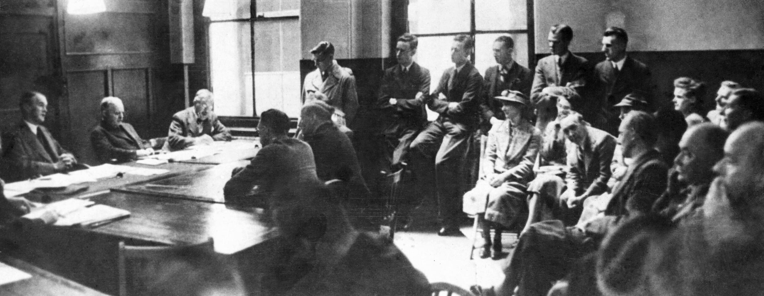 Britain's Home Front 1939 - 1945- Conscientious Objectors The scene during the sitting of a tribunal for Conscientious Objectors. On the left are the members of the tribunal, left to right: Judge E H Longson (chairman), Professor J G Smith and Mr A H Gibbard. Immediately in front of them is an objector with his advisor. In the seats behind are relatives and friends of the objector.